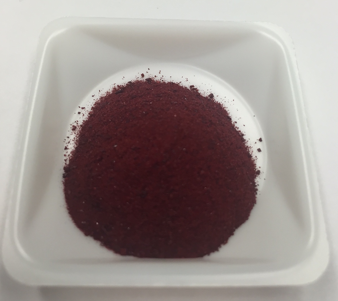 a sample of microcrystalline Cp2TiCl2 (Aldrich)